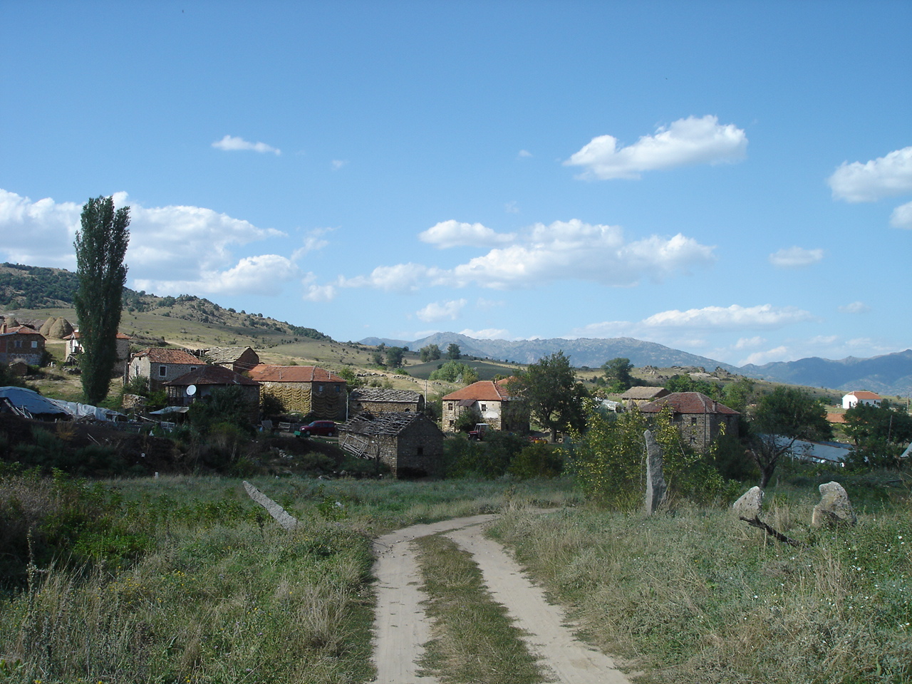 village Krushevica in Mariovo region near Prilep, Macedonia